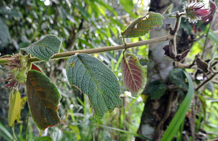 From Wildsumaco Reserve, Ecuador, showing the vine-like habit and colored undersides of leaves.